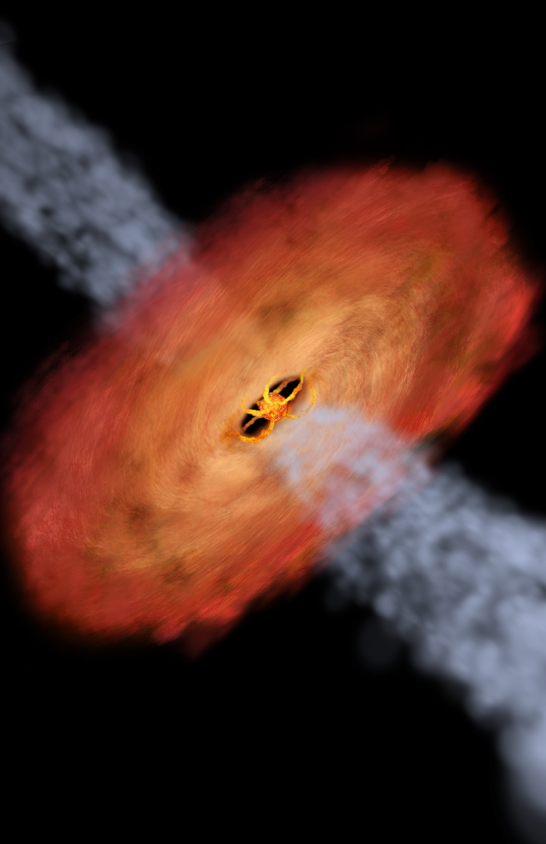 Illustration of DG Tauri and the double-sided X-ray jet